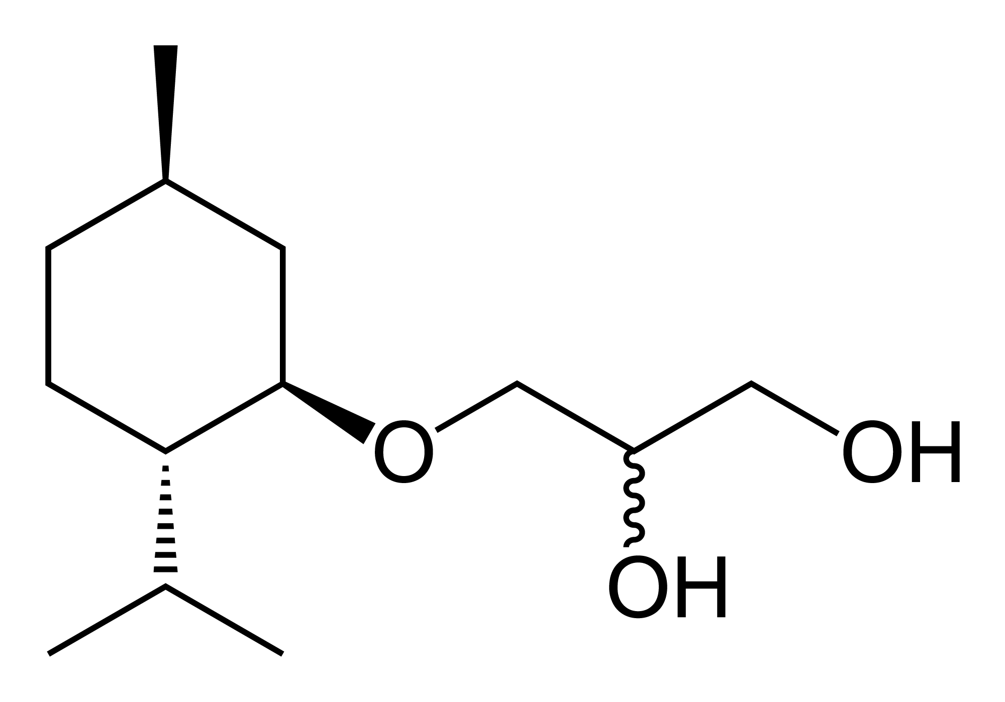 Skeletal formula of menthoxypropanediol, C13H26O3. Structure drawn in ChemBioDraw Ultra 12.0.